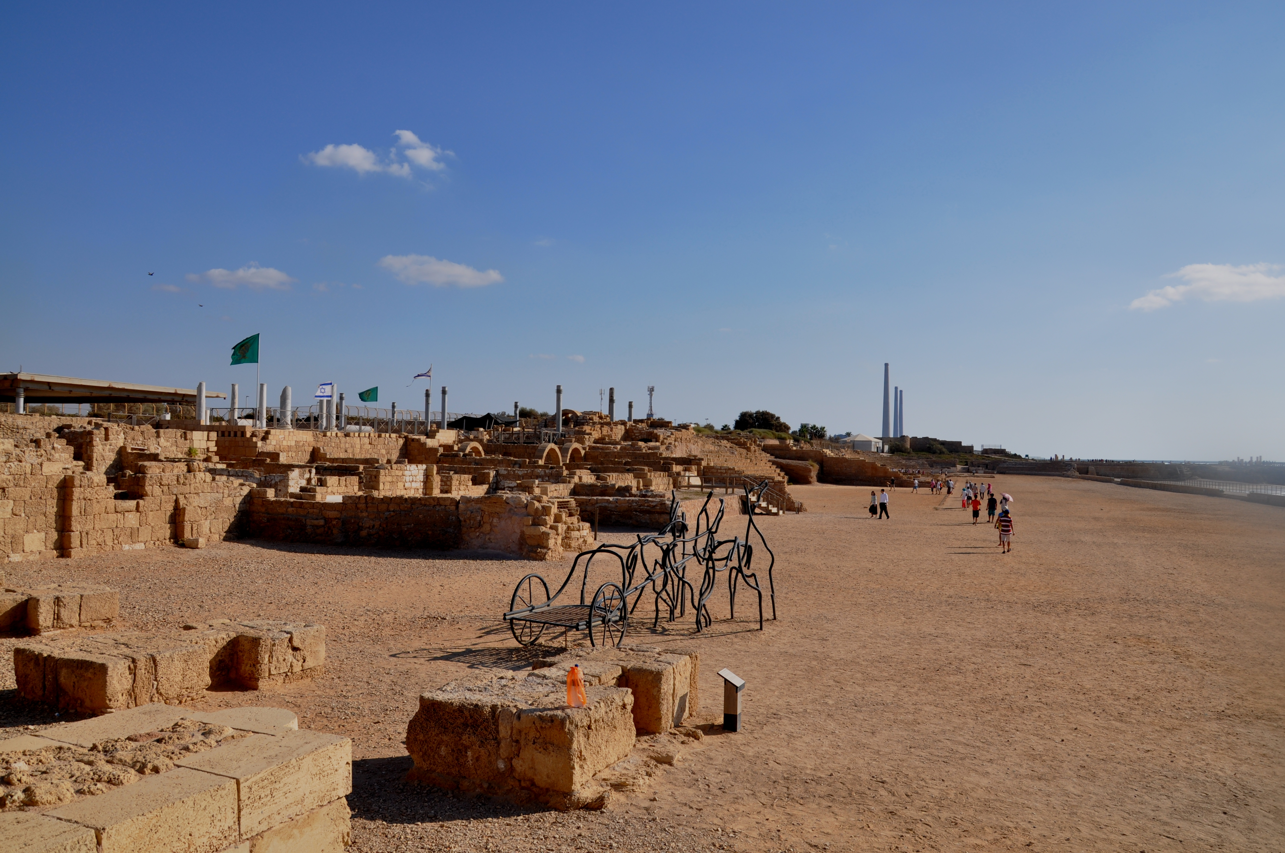 Ruins of Caesarea maritima